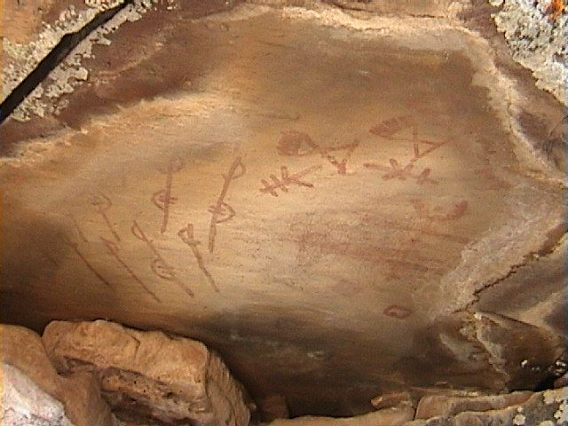 Pictographs on a cave ceiling close to Douglas, Wyoming, USA